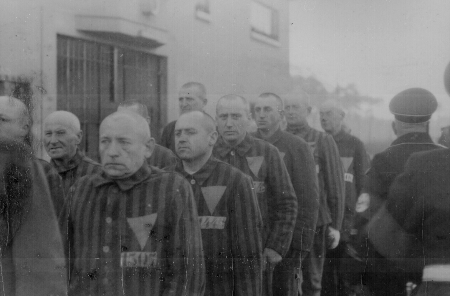 Prisoners in the concentration camp at Sachsenhausen, Germany, December 19, 1938 (National Archives)